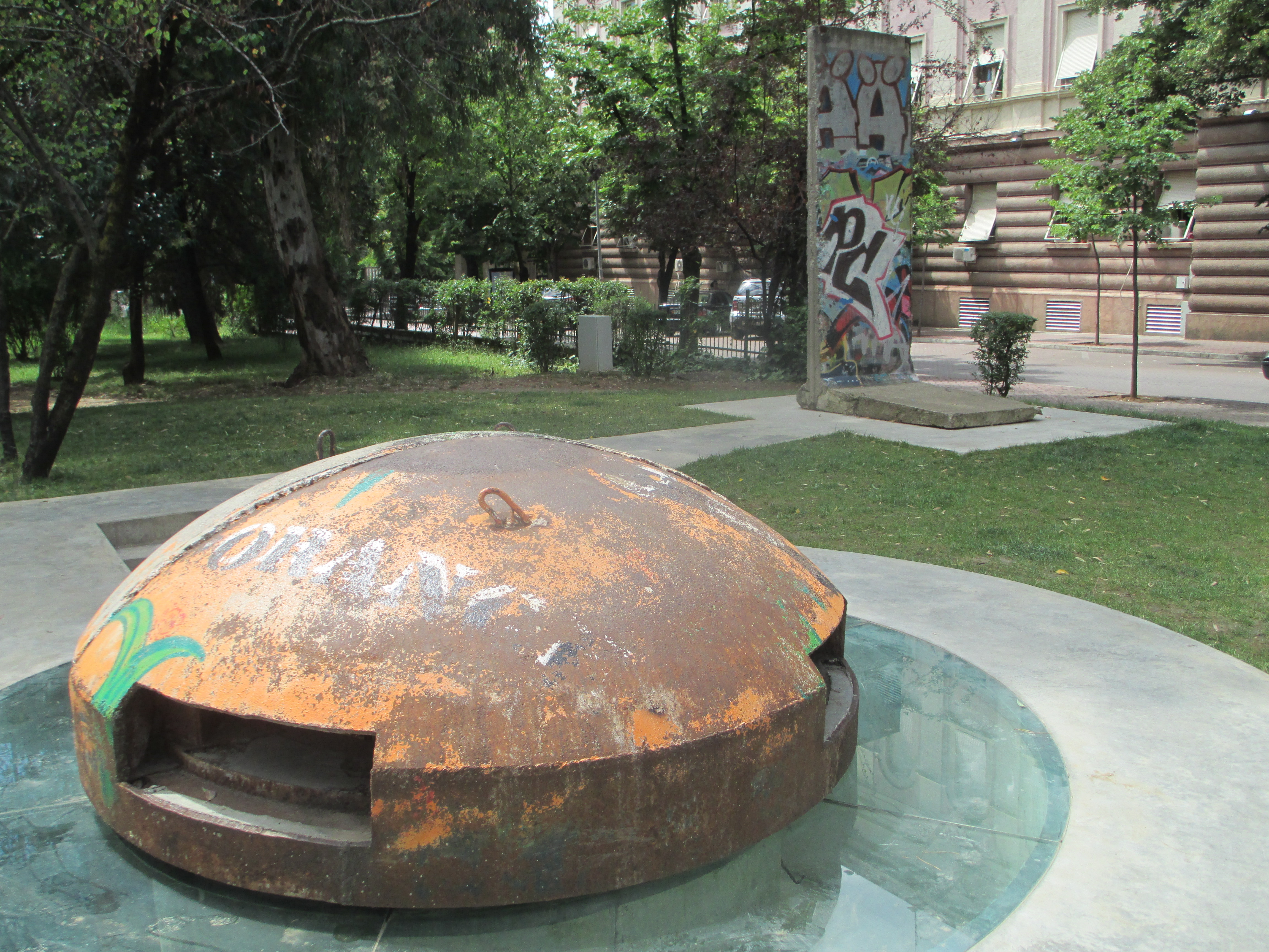 memorial to communist isolation in tirana (2013). consists of an albanian bunker and a fragment from berlin's wall